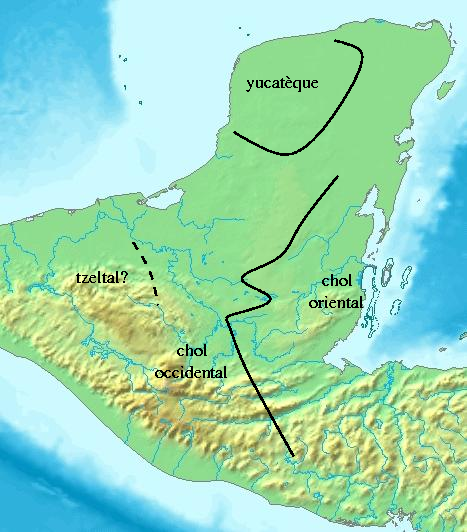 Geographical distribution of dialects in the Classic Maya Era